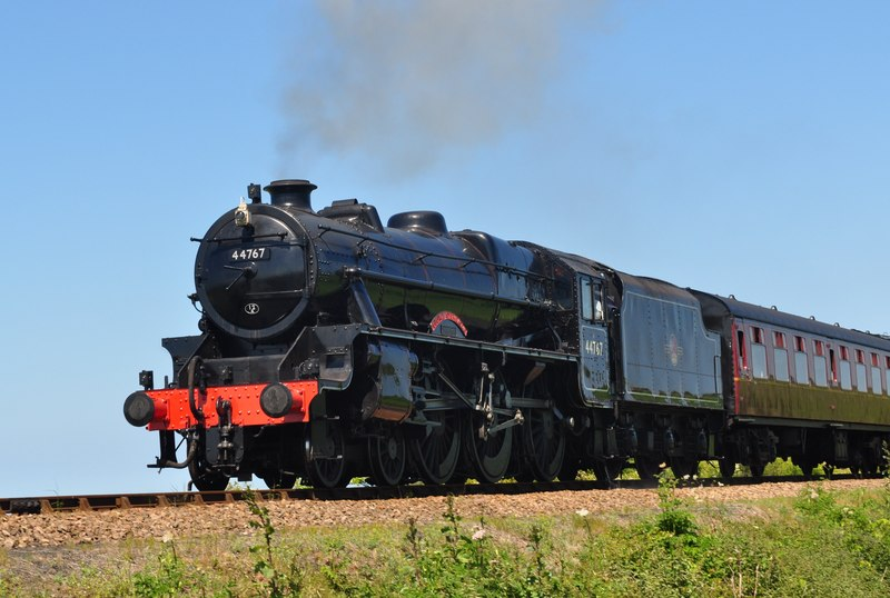 Black Five 44767 George Stephenson, near to Weybourne, Norfolk, Great Britain. A view nearing bridge 303 over the coast road TG1242 : On the road bridge looking towards Sheringham . The Black Five is visiting from the Great Central Railway after overhaul. See also TG0940 : Black Five 44767 George Stephvenson